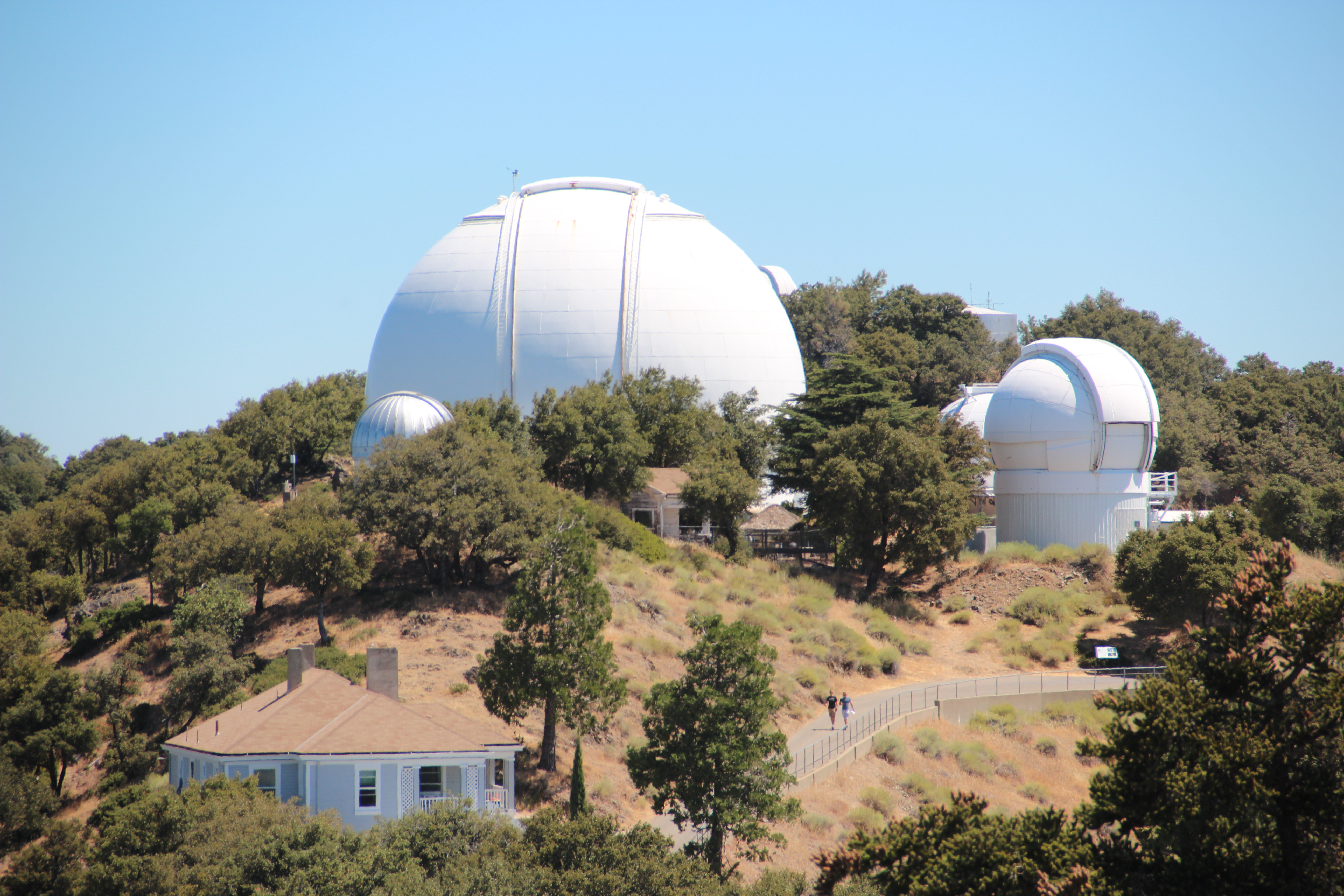 Tycho Brahe Peak